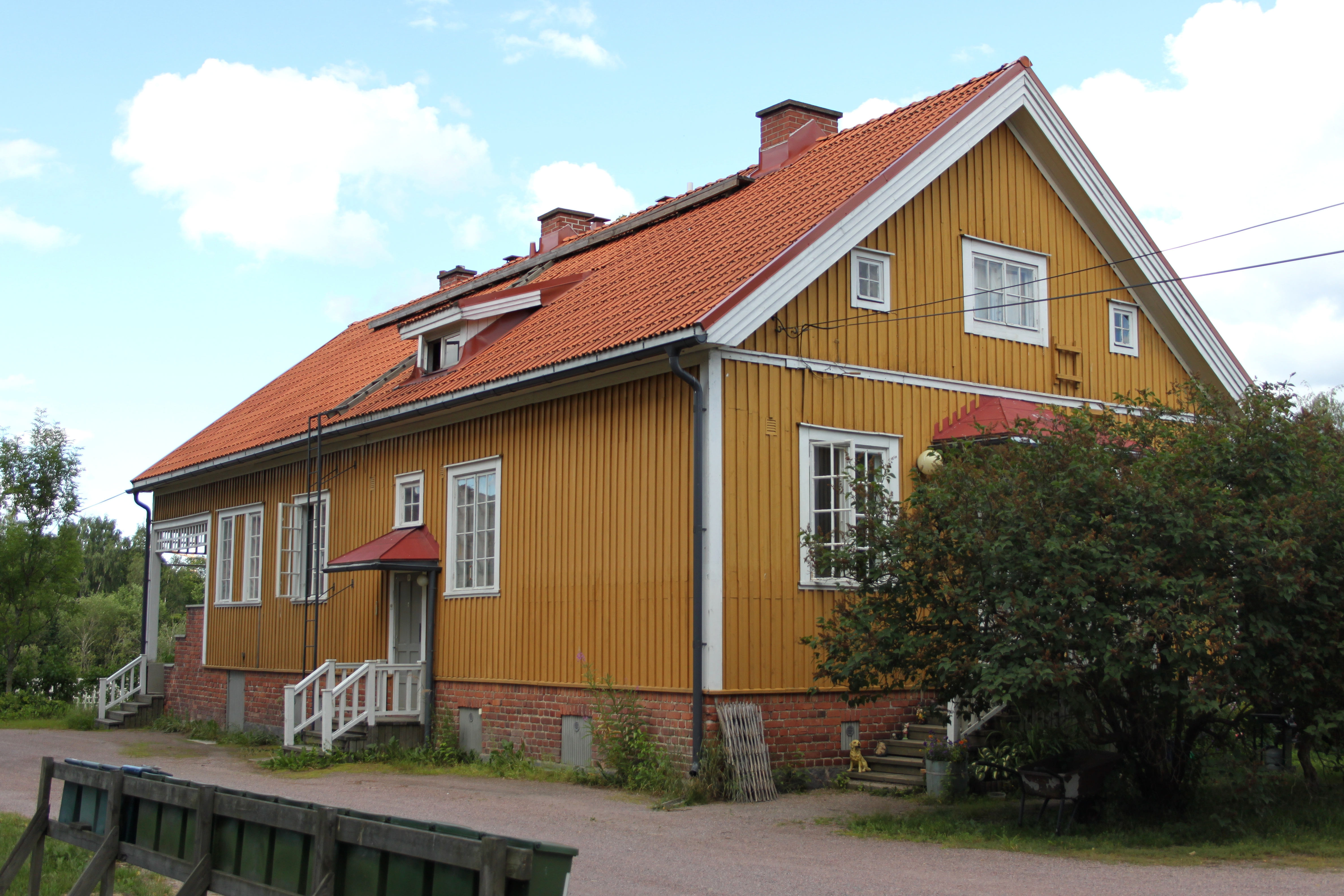 Gardener's house, Annala manor, Helsinki. Built in the 1840s, major changes in the 1920s. Architecht K. J. Alhskog.